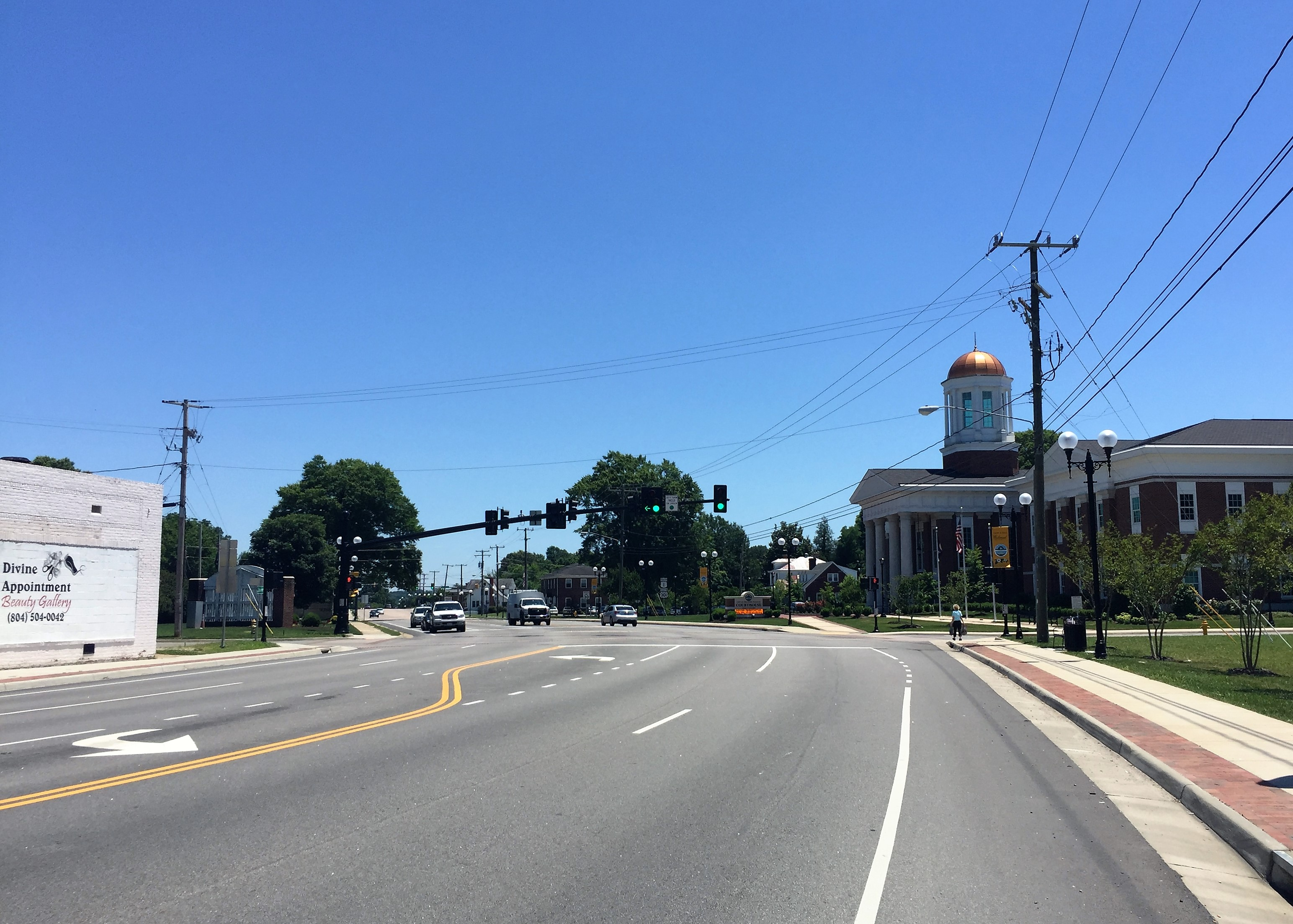 A view of the Colonial Heights Boulevard, with the courthouse on the right